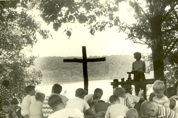 Caption: 1952. Chapel Service at mid-morning on Inspiration Hill. Alice Kauffman, VS worker, leads the morning worship. Citation: Delton Franz Papers, 1952-2000. Photographs, n.d. HM1-012 Box 2 Folder 30. Mennonite Church USA Archives - Goshen. Goshen, Indiana.